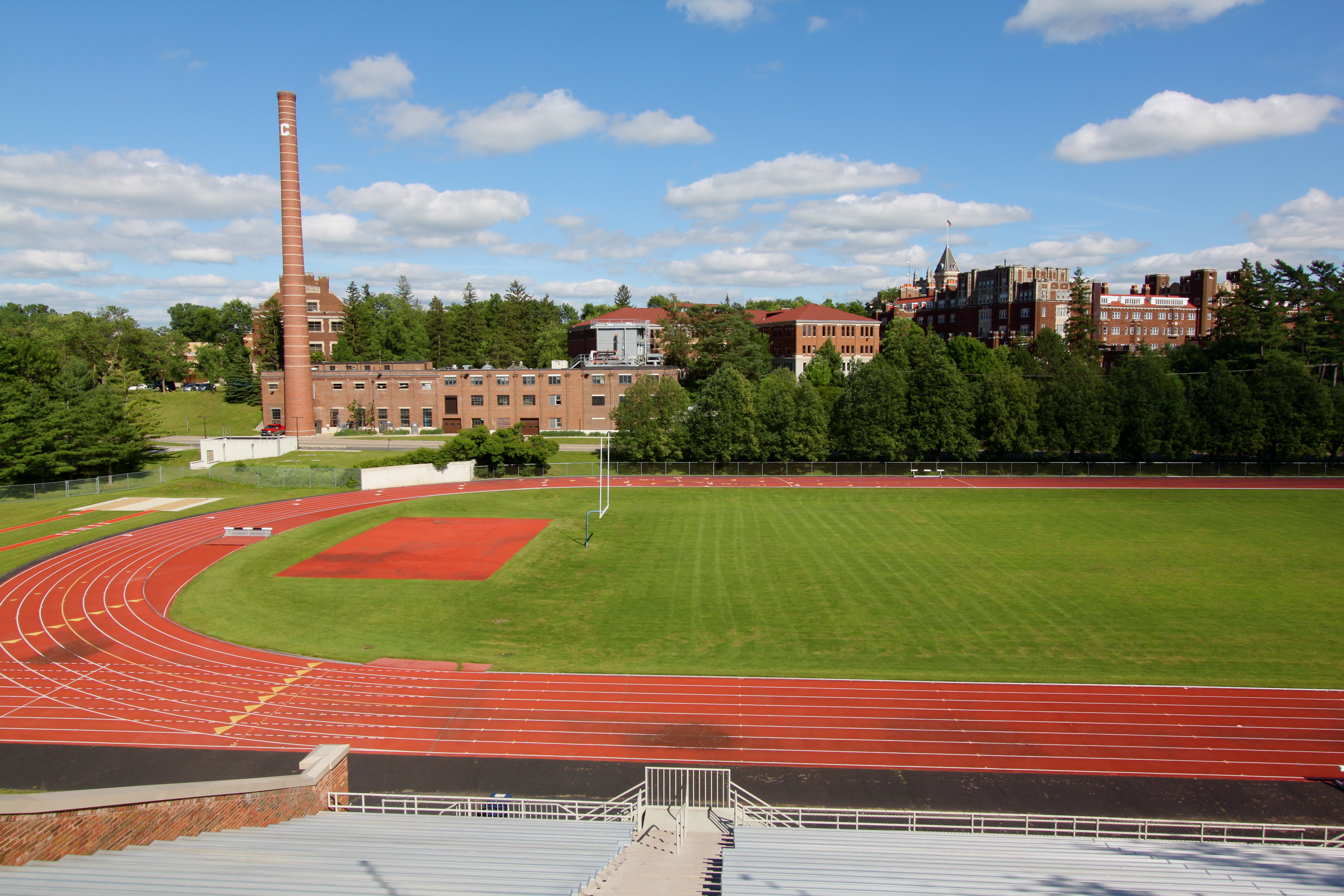 View of buildings of Carleton College from the top row of the bleachers in Laird Stadium